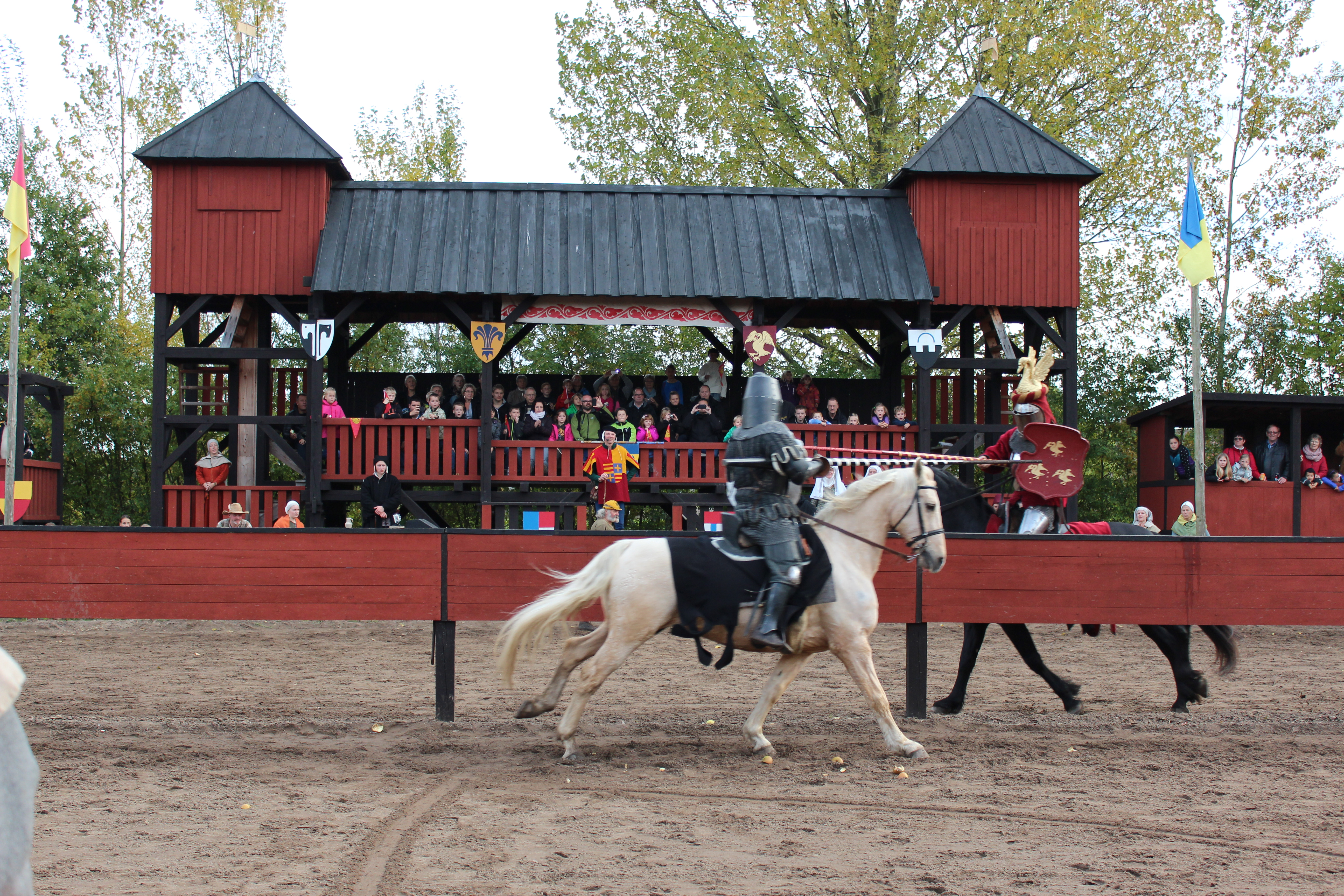 Jousting at Middelaldercentret in Sundby, Lolland, Denmark